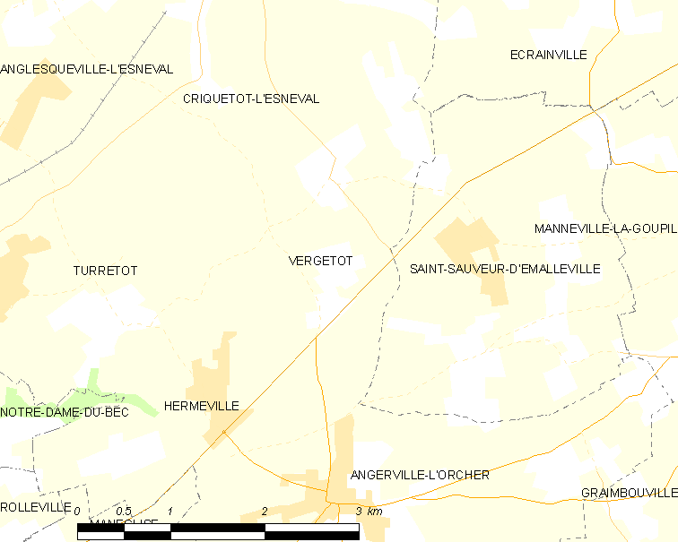 Map of French municipality Vergetot